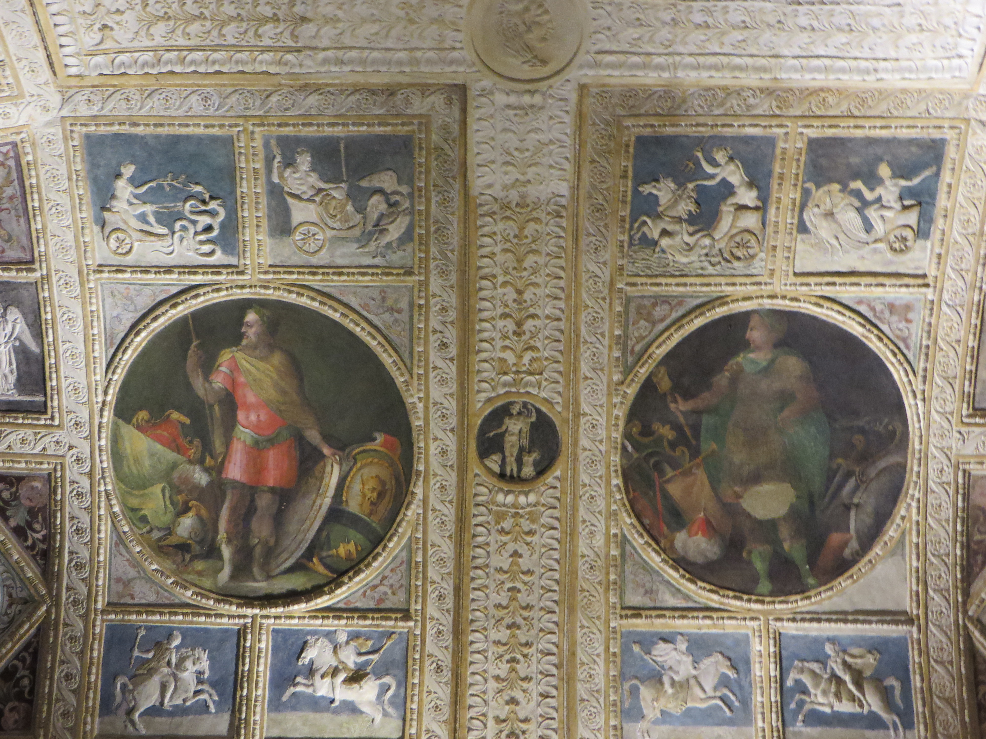 Rossi Castle V